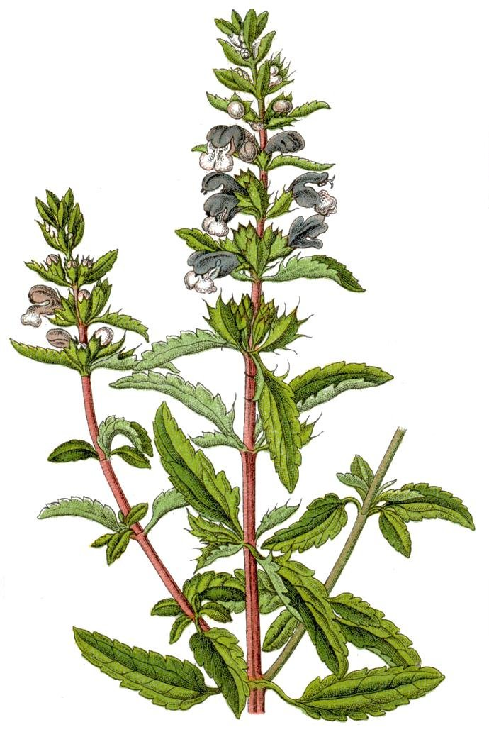 Original Caption Türkische Melisse, Dracocephalum moldavica